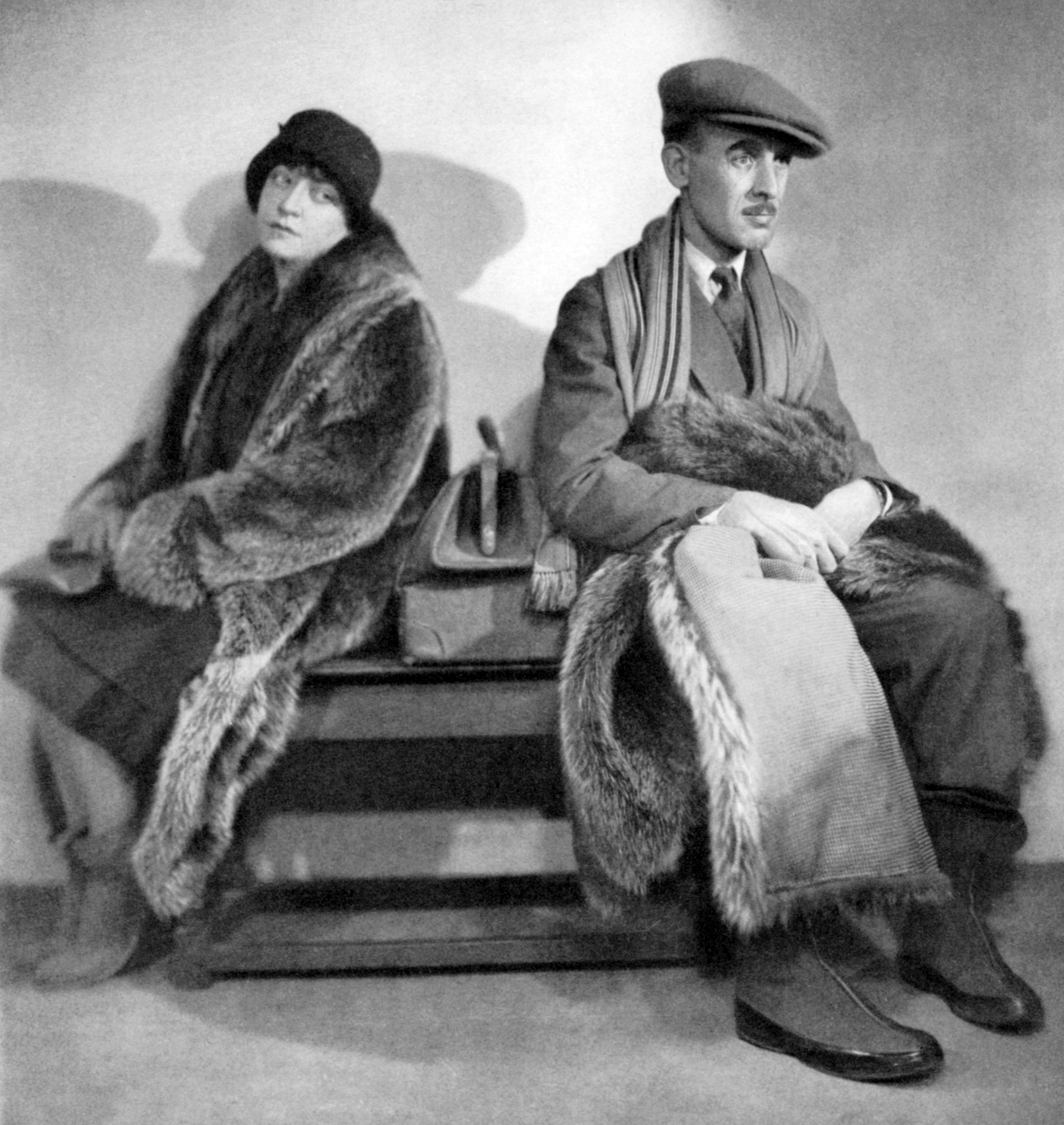 Promotional photograph of Lucile Gleason and James Gleason in the Broadway production of The Shannons of Broadway.